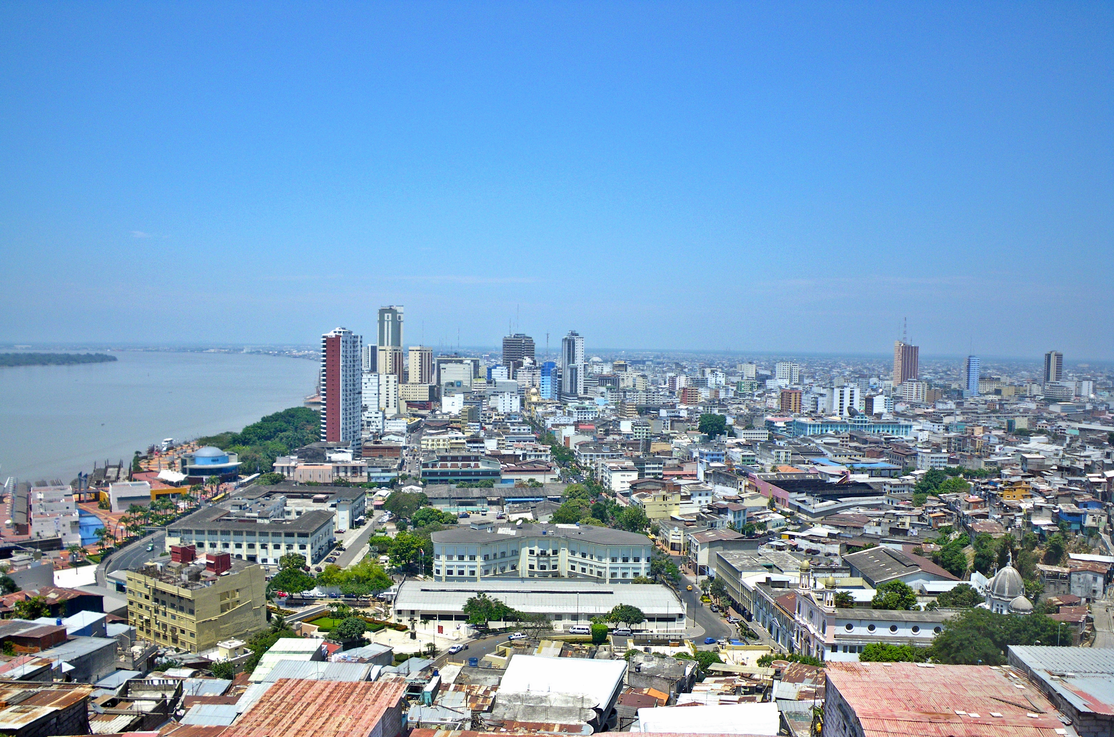 Guayaquil, Ecuador. September 2011.